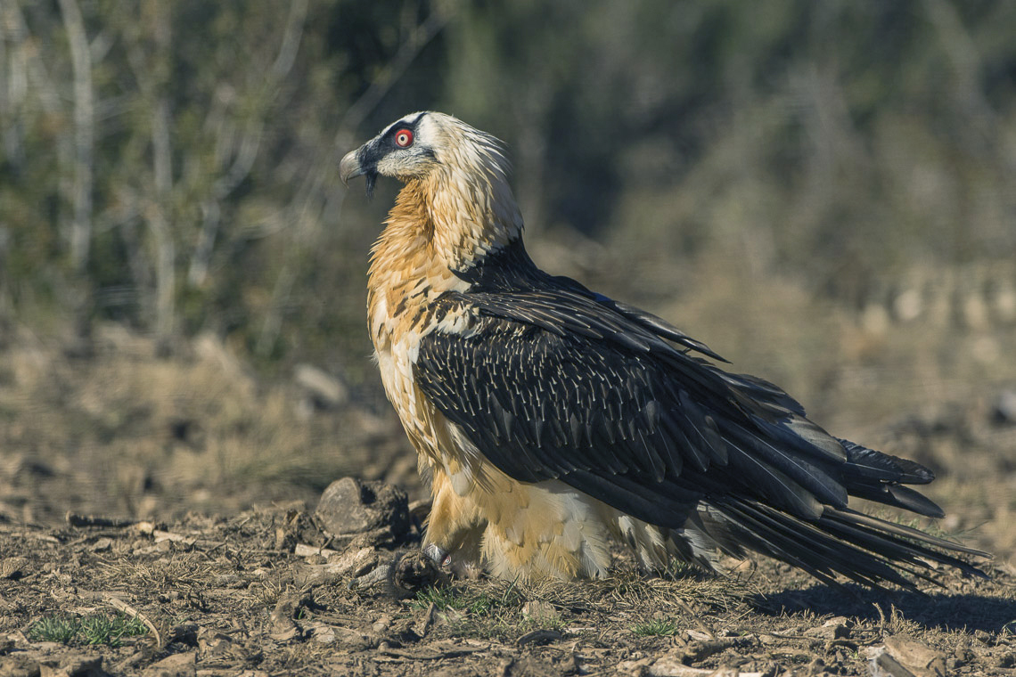 Bearded Vulture - Catalan Pyrenees - Spain_MG_4592